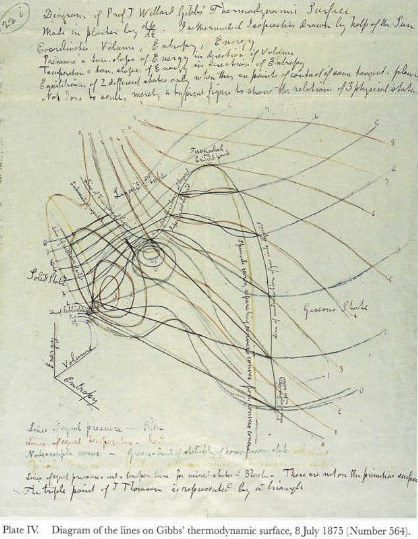 J. C. Maxwell's sketch of the thermodynamic surface for a water-like substance, based on a theoretical construct proposed by J. W. Gibbs. The curves are "isothermals and isopiestics drawn by help of the Sun."